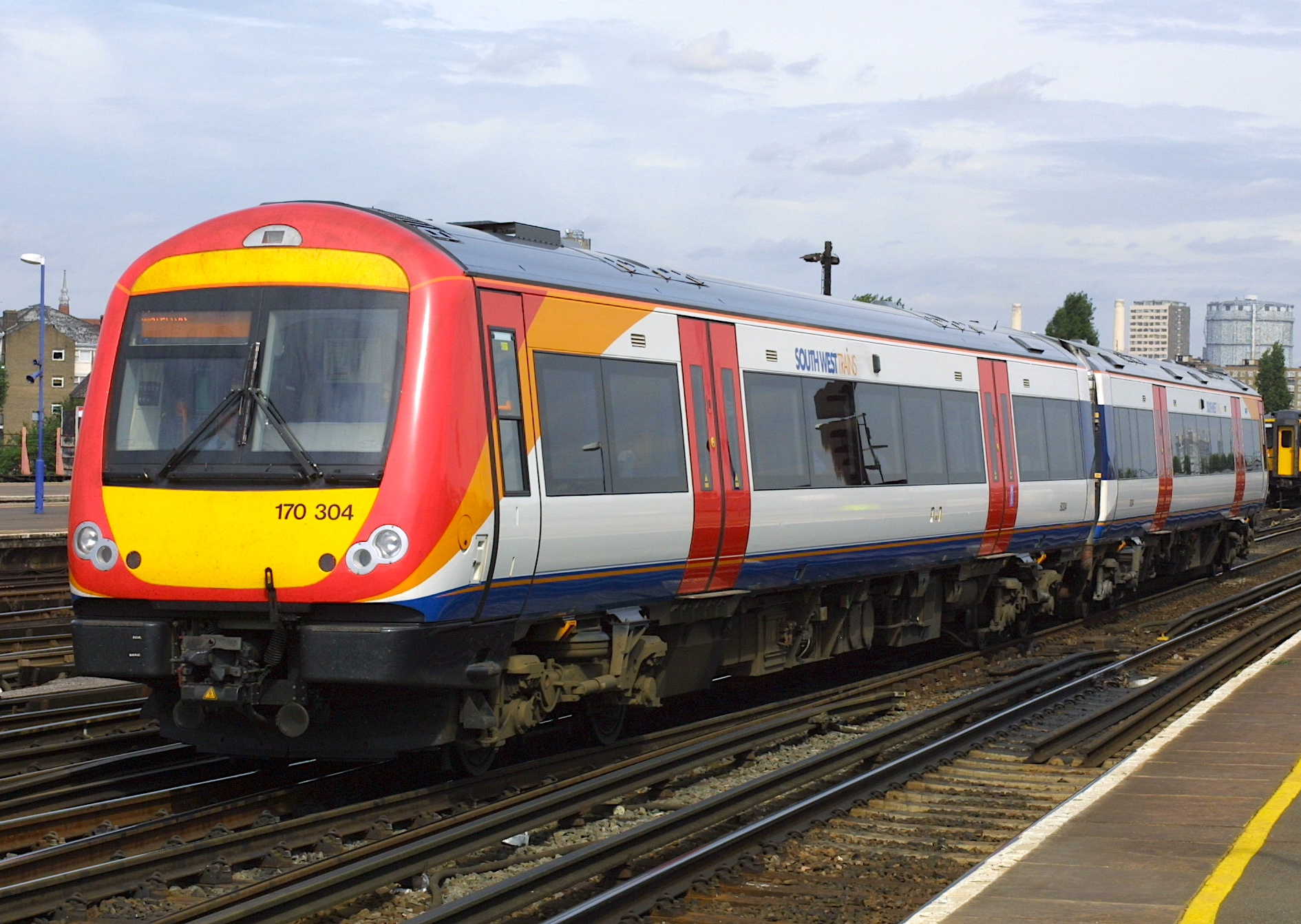 170304 at Clapham Junction on 07/09/01